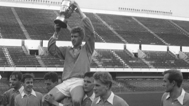 Kai Pahlman holding the Finnish Cup